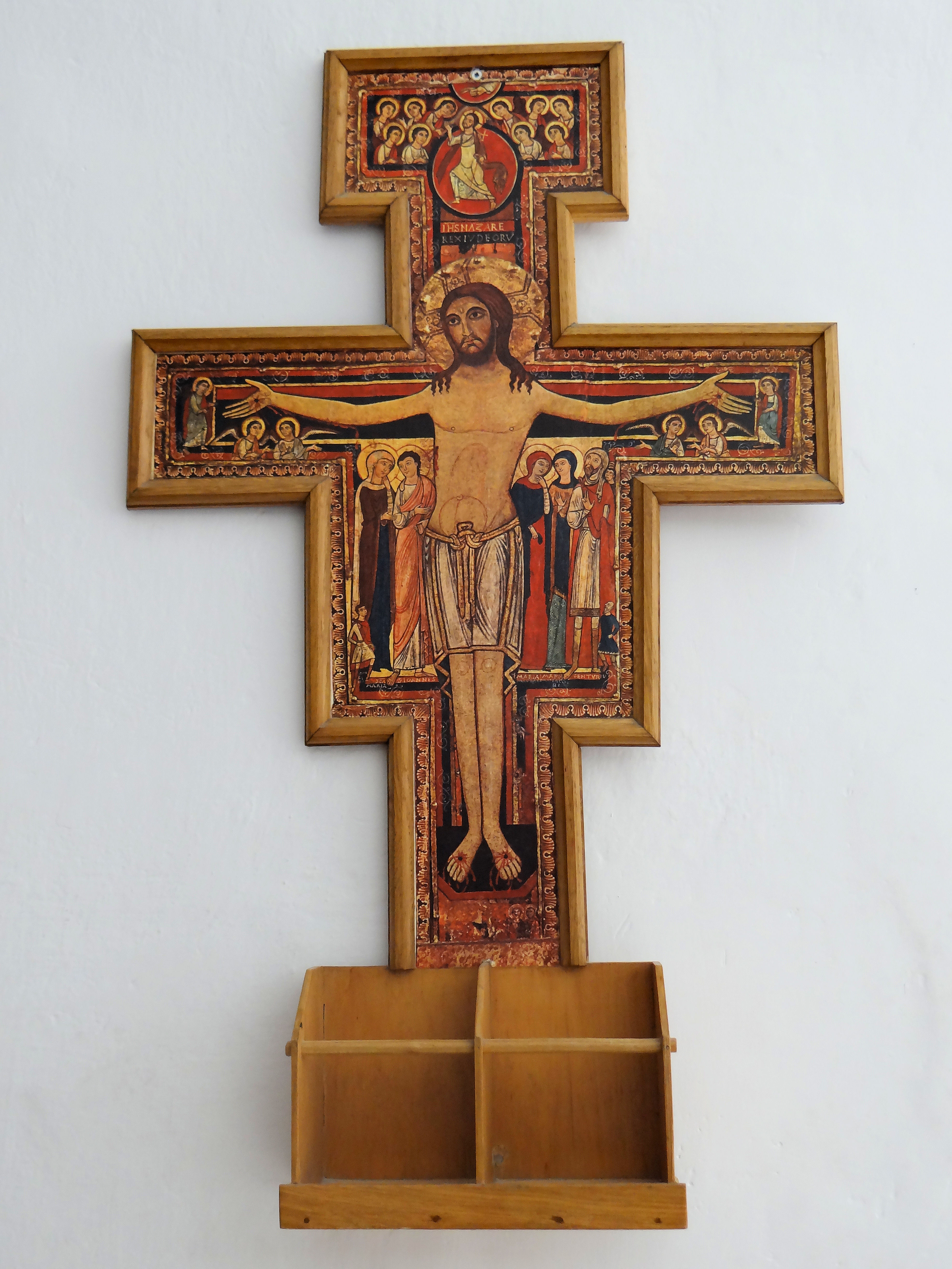 Museum in Monastery of Reformers in Kazimierz Dolnyy